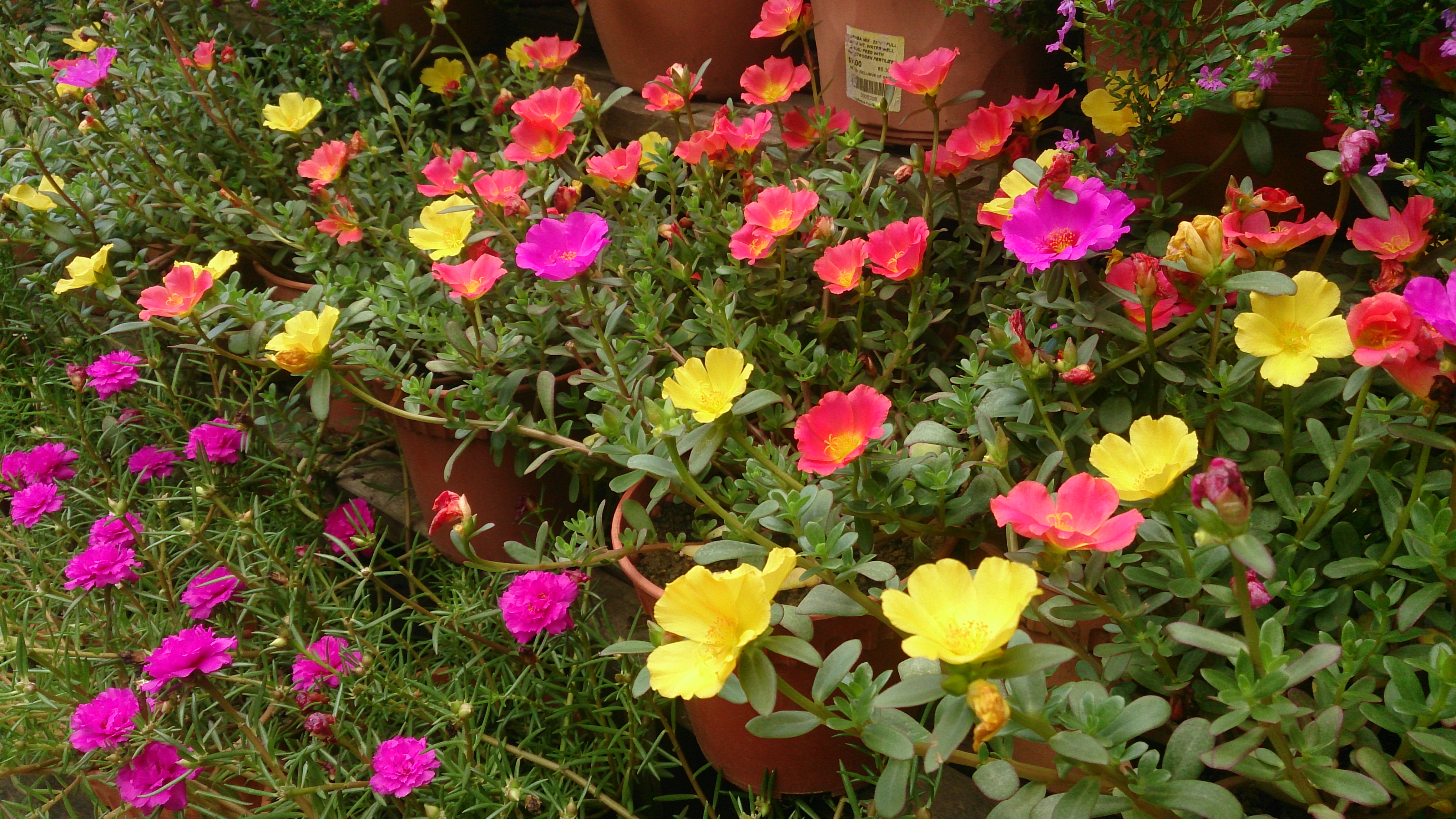 Portulaca oleracea. Common names: Purslane. Purslane. Verdolaga. Little hogweed. Mǎ chǐ xiàn 马齿苋 (Chinese) Medicinal usage: omega 3 fatty acid source.